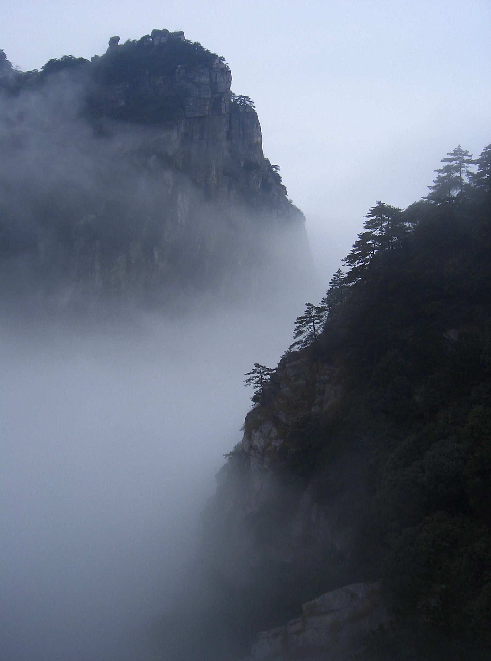 Fog curls around the peaks of Mt Lu (Lushan) in Jiangxi province, China. The trees have been identified as Pinus hwangshanensis, or Huangshan Pine.